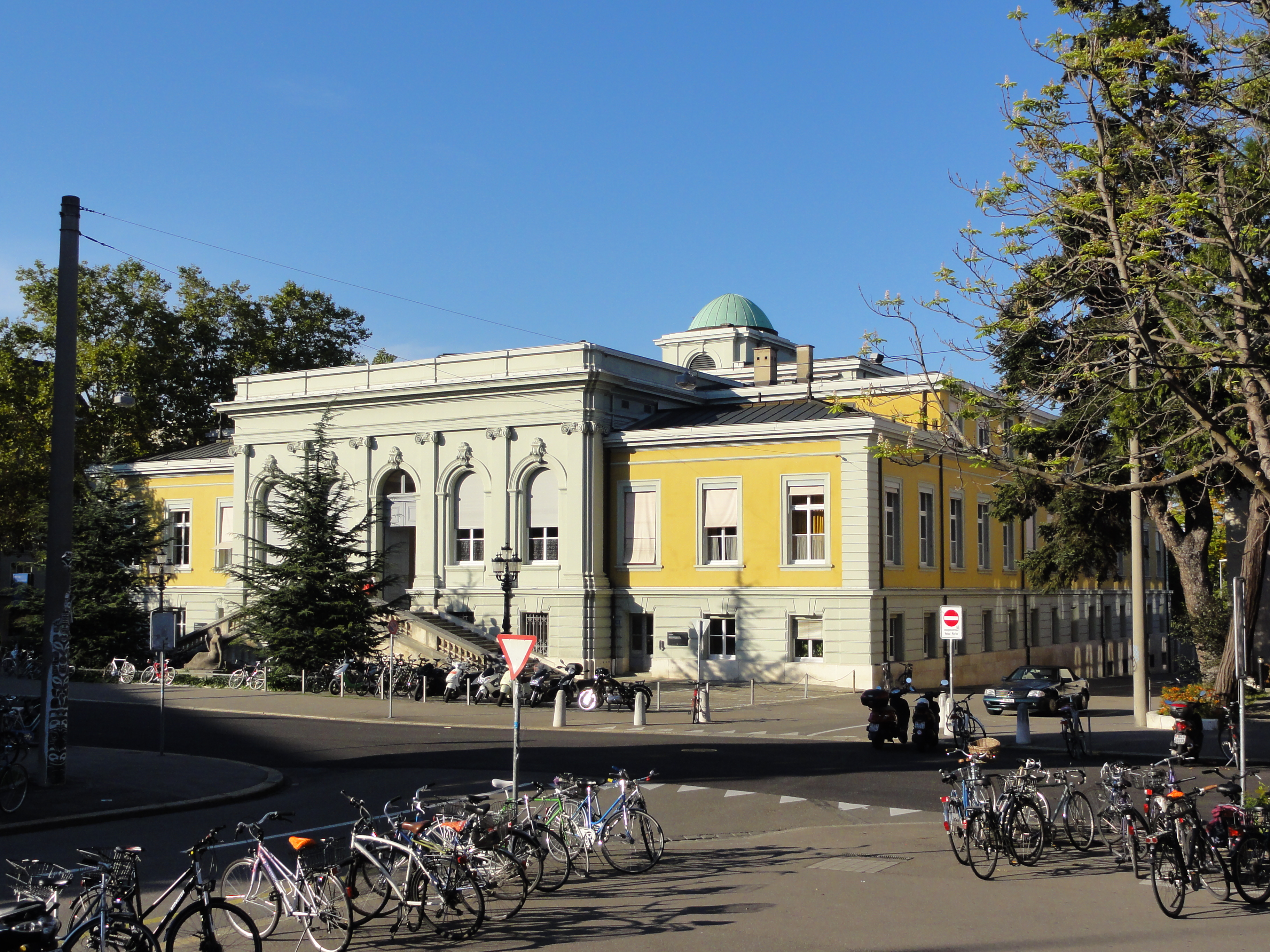 Basel — Bernoullianum